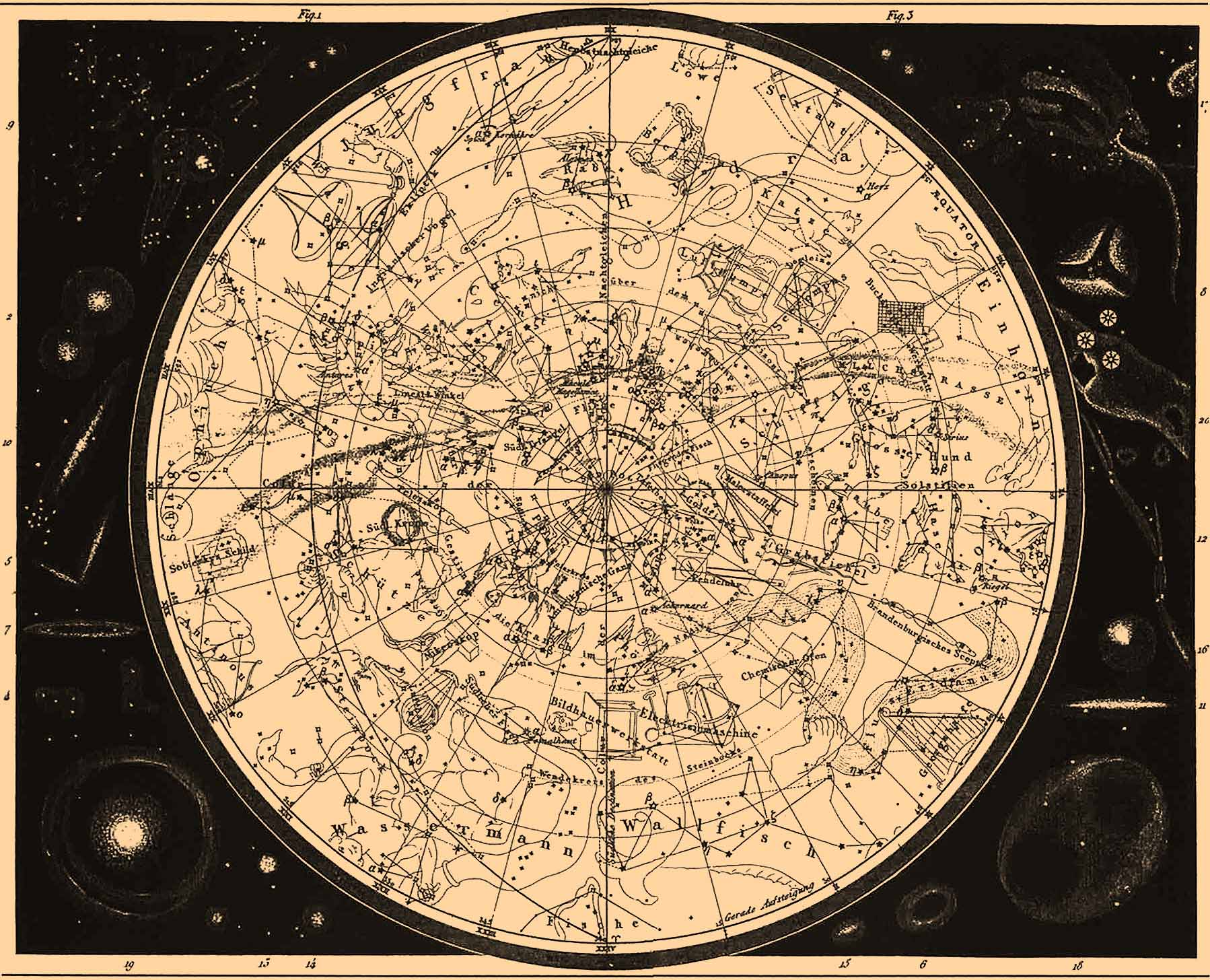 Illustration from Brockhaus and Efron Encyclopedic Dictionary (1890—1907)